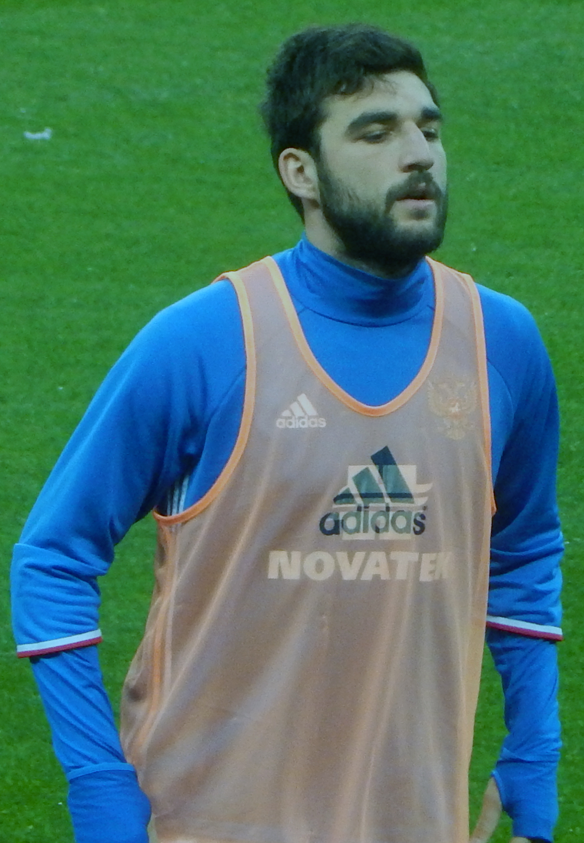 A friendly match between Russia and Argentina in Moscow, Luzhniki stadium, on November 11, 2017.